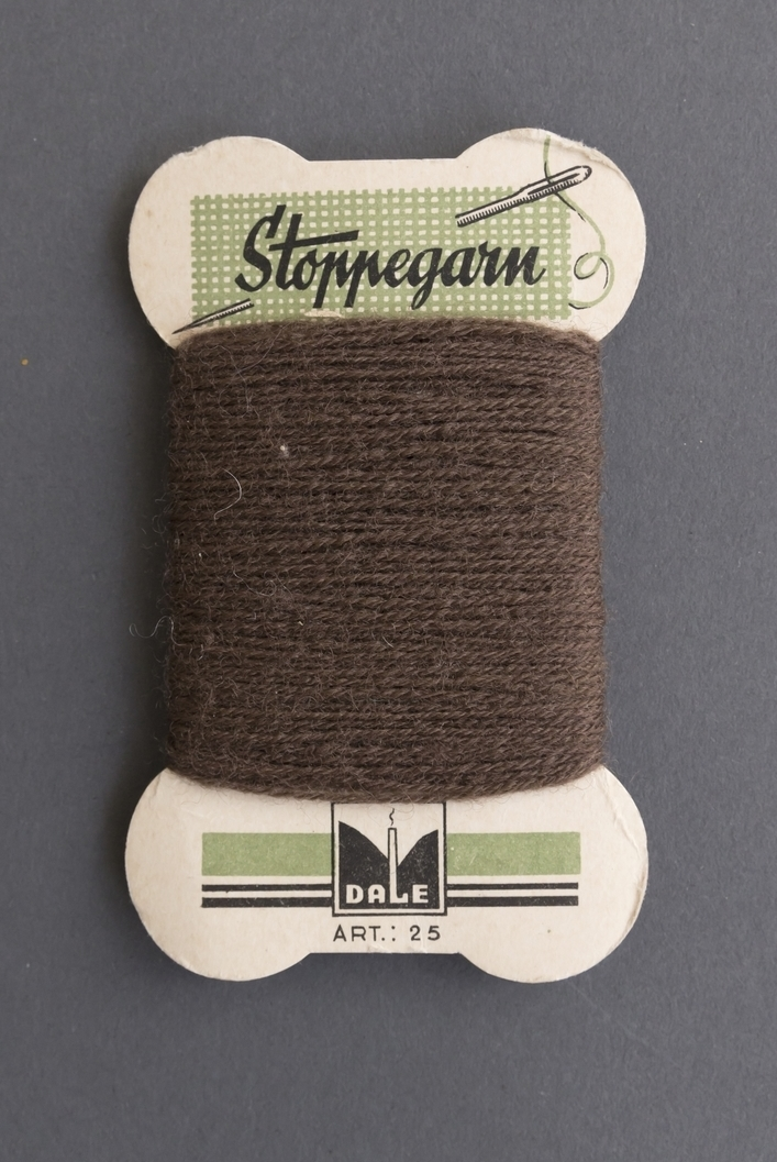 Yarn for mending knitwear, from Dale Fabrikker, Vaksdal, Norway (object no. NTMT.00750, The Norwegian Knitting Industry Museum).